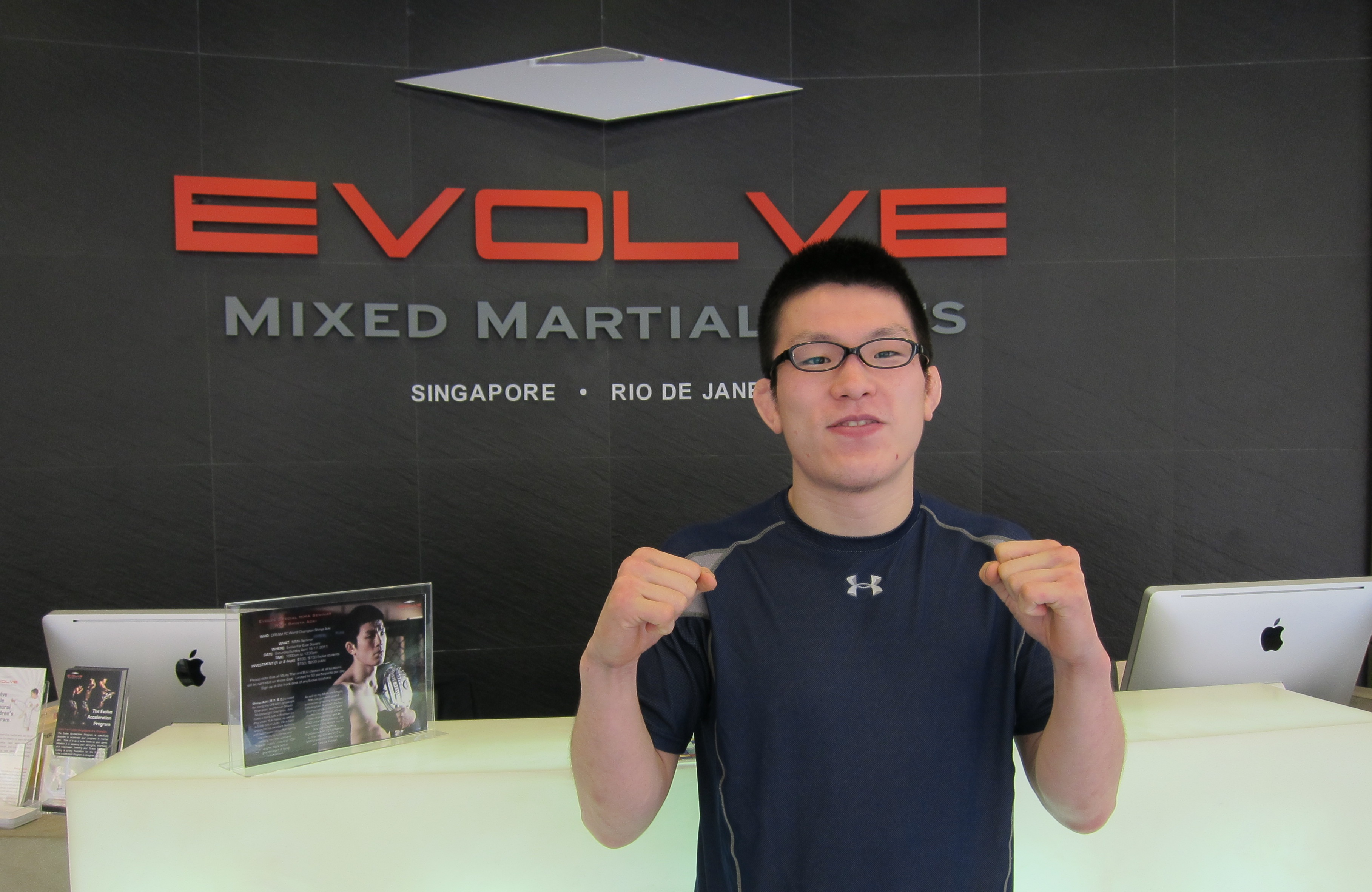 Picture of Japanese MMA fighter Shinya Aoki training at Evolve MMA in Singapore, April 2011.